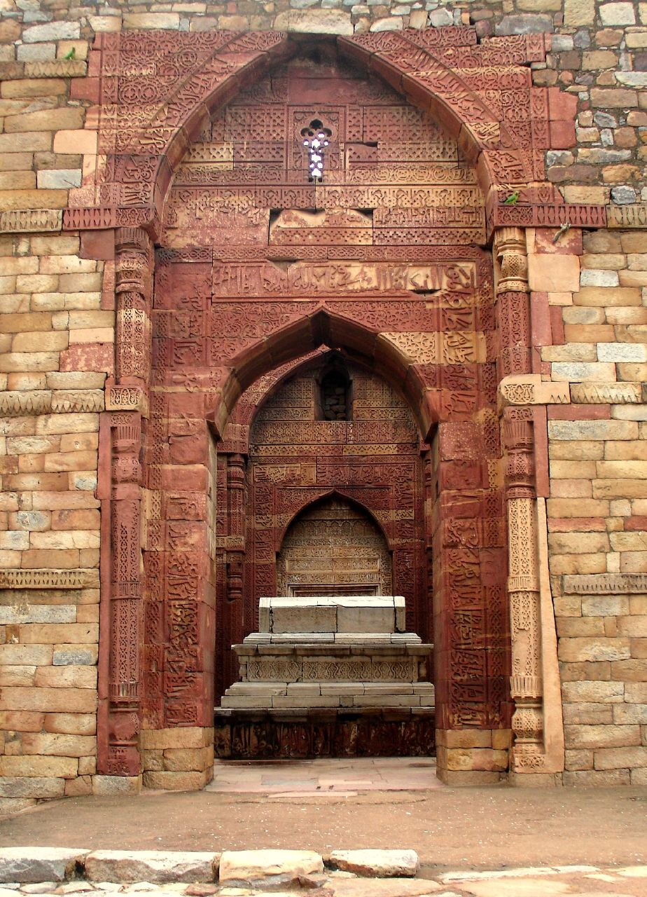 Tomb of Iltutmish, Qutb Minar complex, Mehrauli.